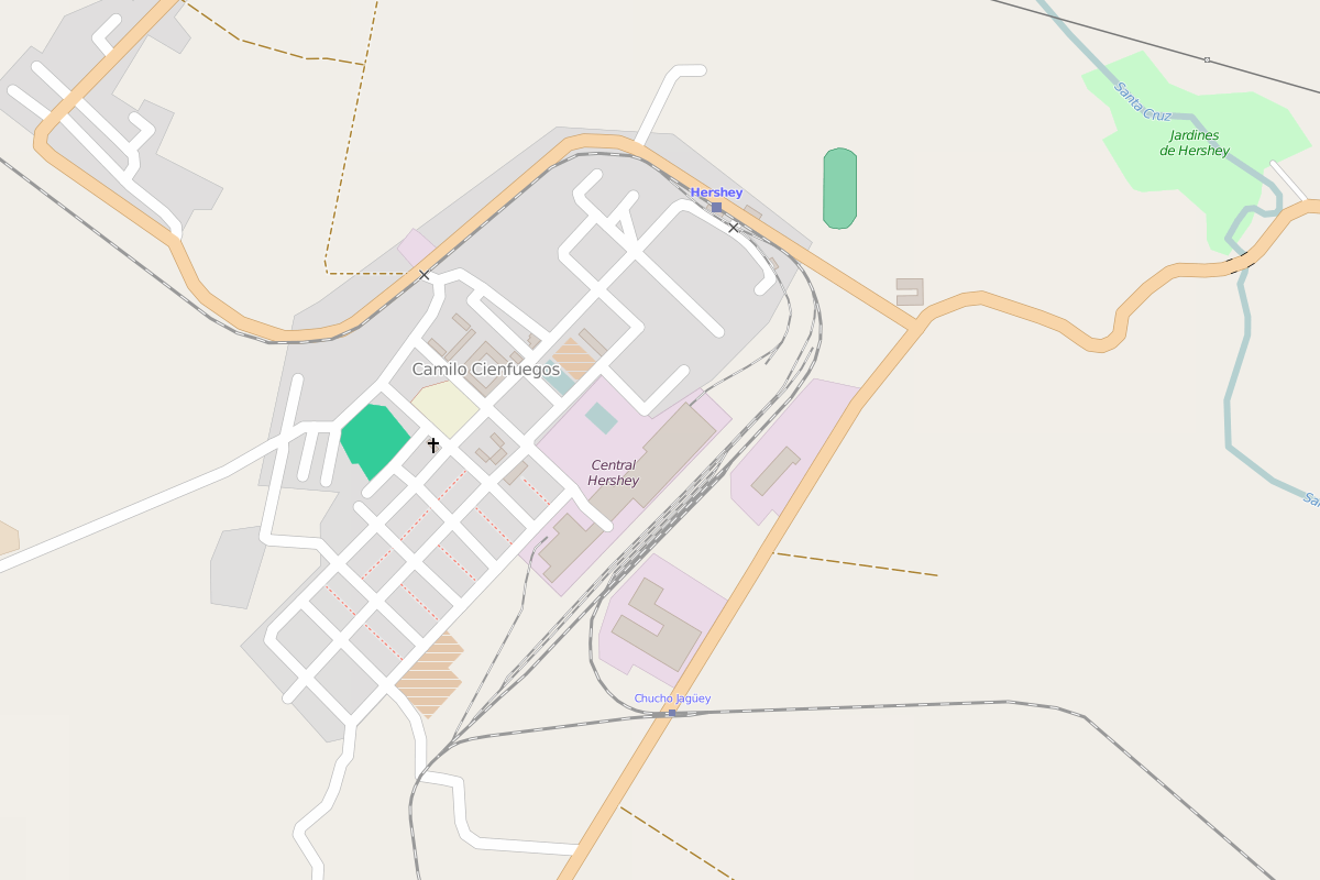 This map may be incomplete, and may contain errors. Don't rely solely on it for navigation.